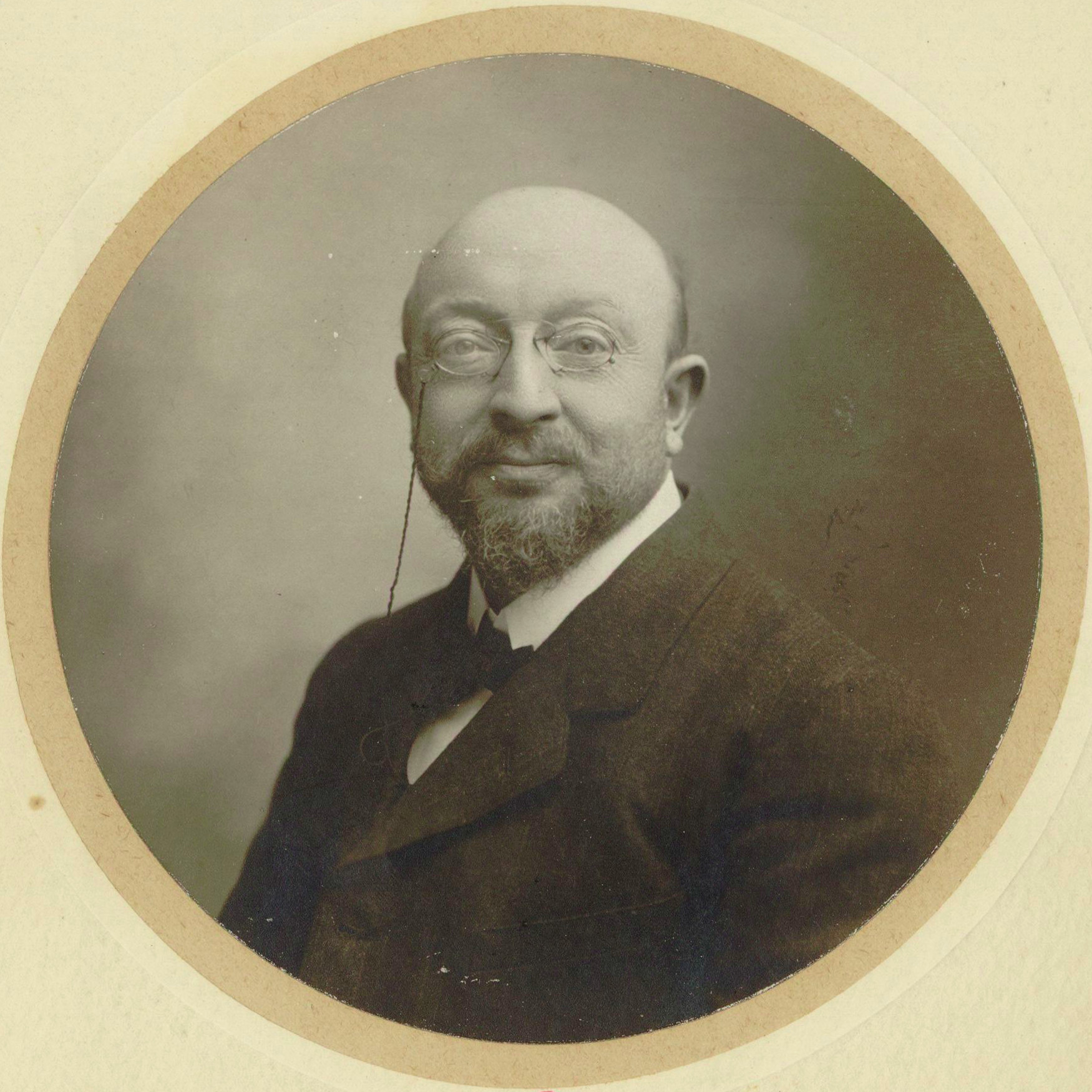 Portrait of Adolphe Joseph Hennebains (1862—1914), French flutist